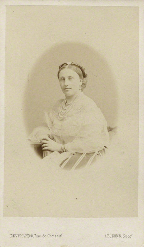 by Le Jeune, albumen carte-de-visite, 1867 or before